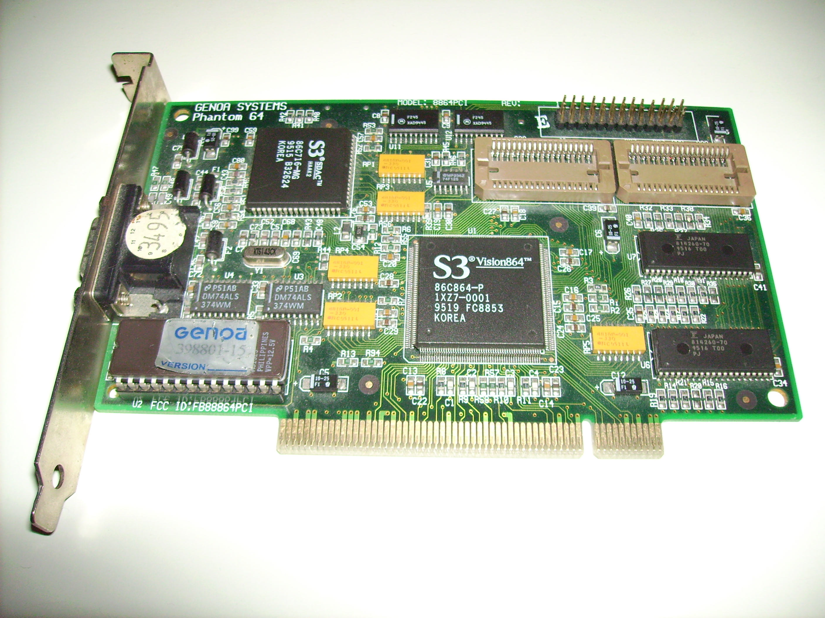 Graphics card based on the S3 Vision864 chipset (2D accelerator), 1MB memory installed